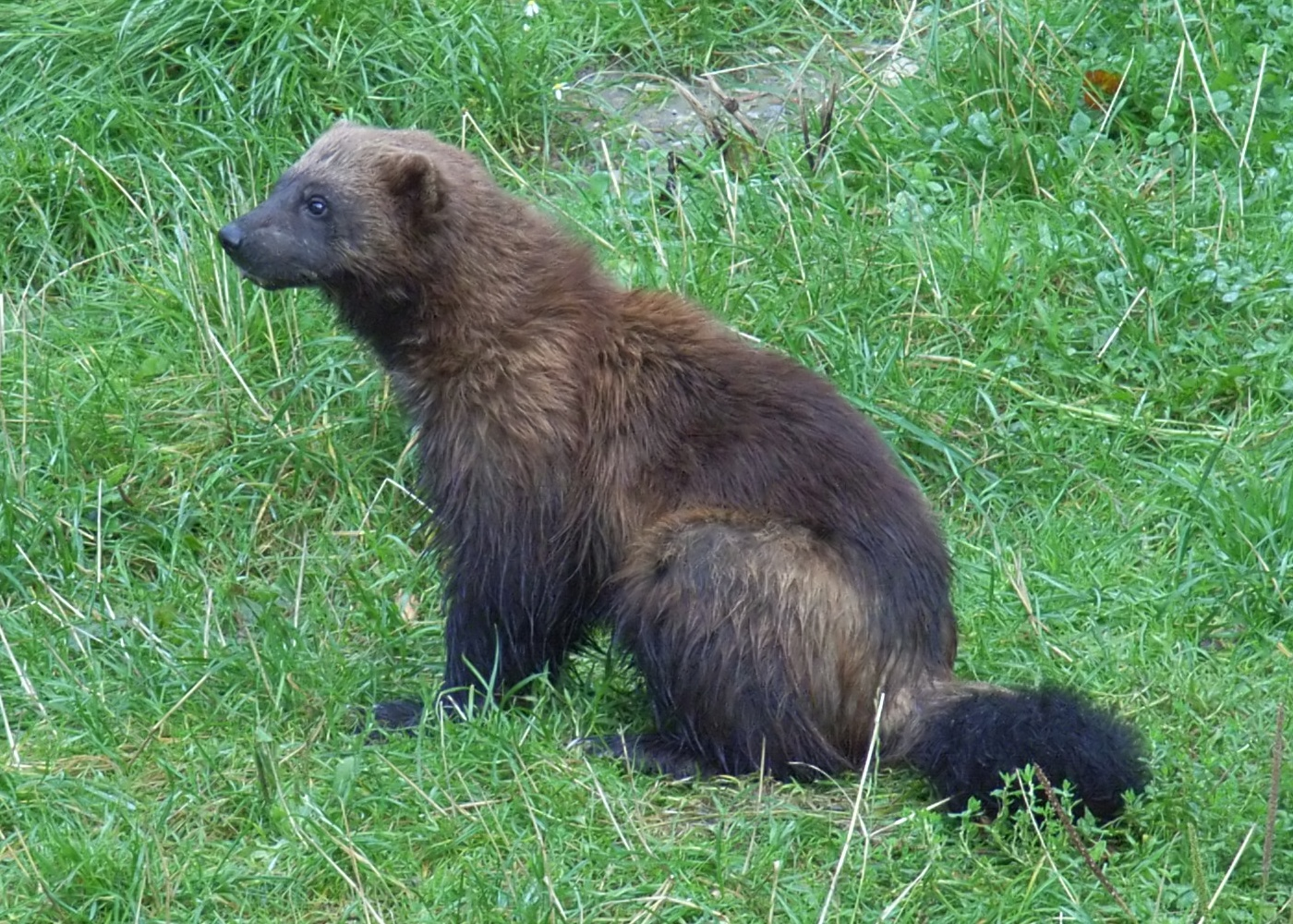 Wolverine